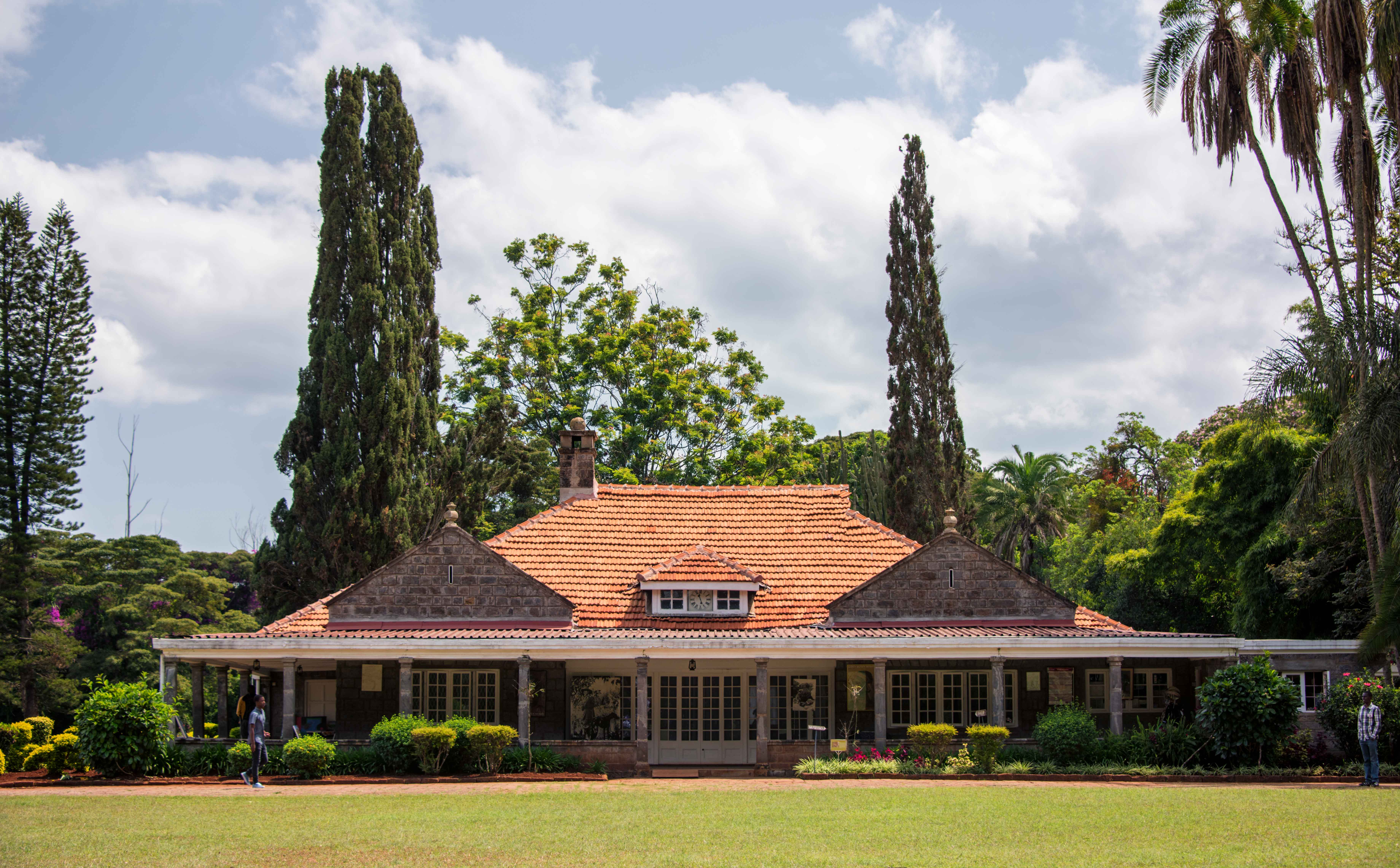 'Out of Africa'